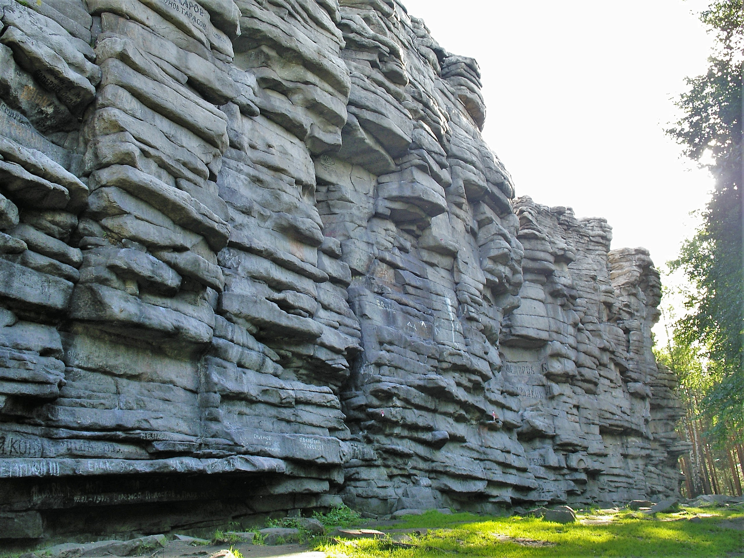 North side of Devil's Settlement